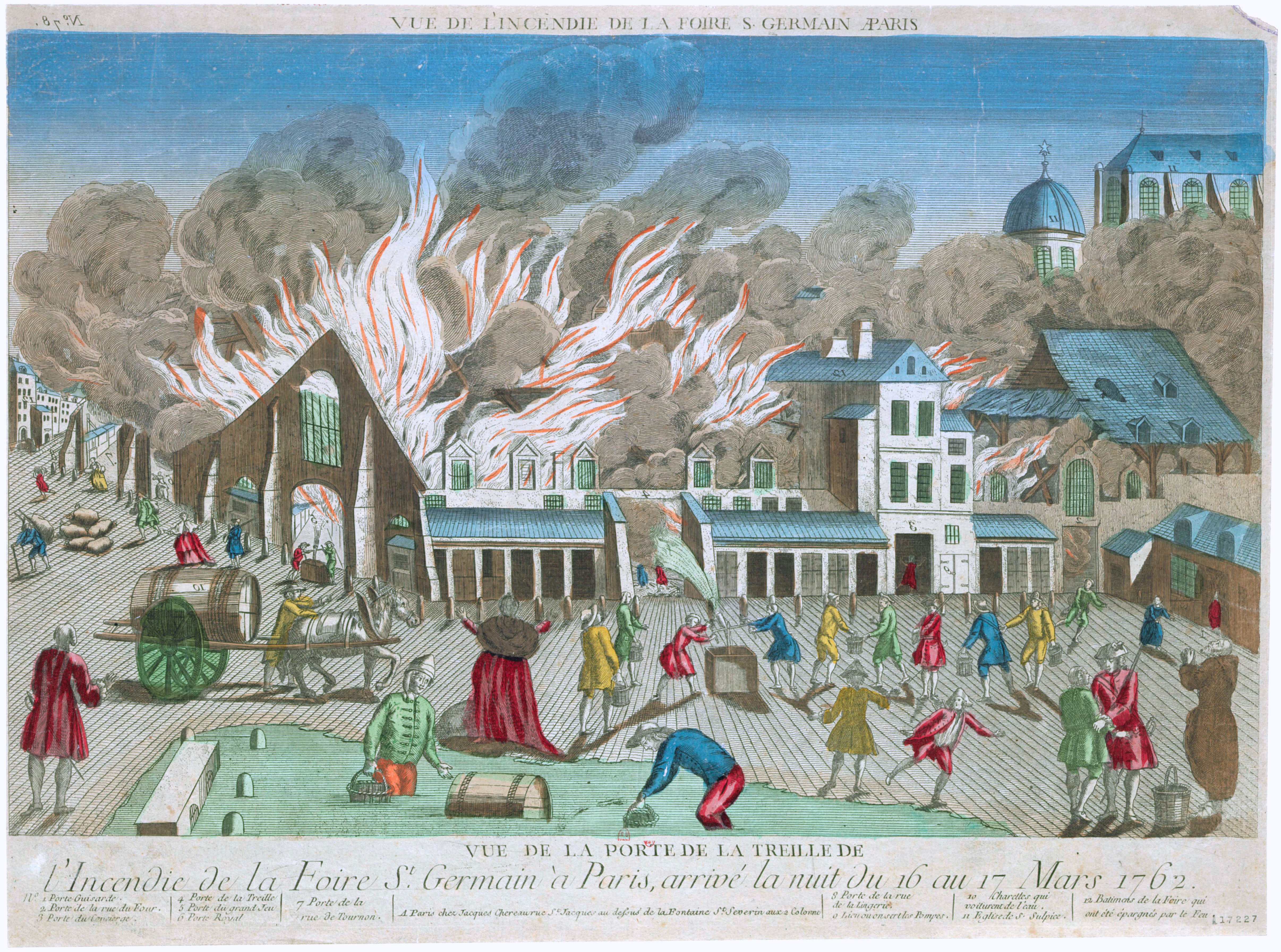 Engraving with a view (looking south) of the fire at the Foire Saint-Germain on the night of 16 to 17 March 1762 (published in Paris by Jacques Chereau, rue St. Jacques). The Saint Sulpice Church is visible in the background. The engraved upper part of the the Gallica original has been flipped horizontally, so that the title at the top reads correctly, and Saint-Sulpice is in the correct position, to the right.